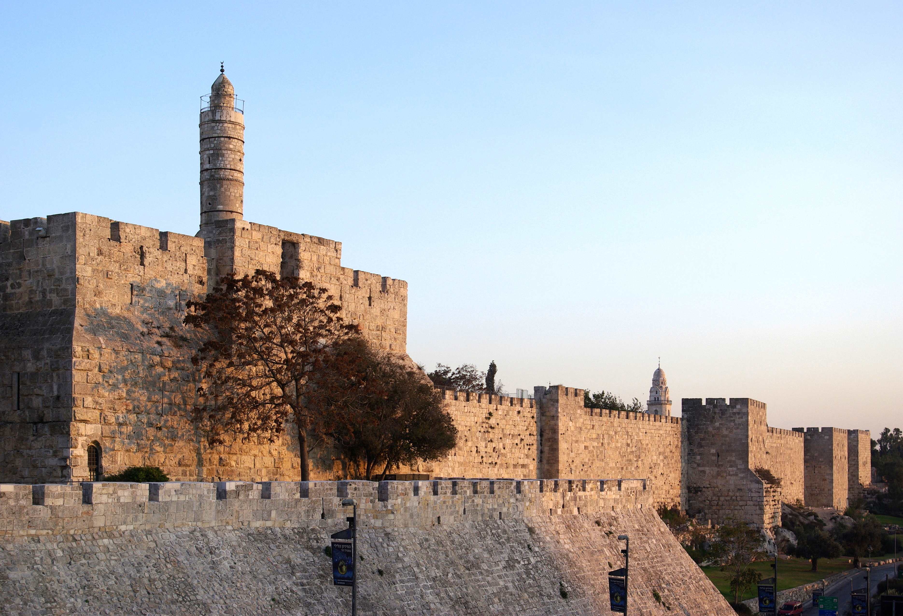 Jerusalem, Citadel